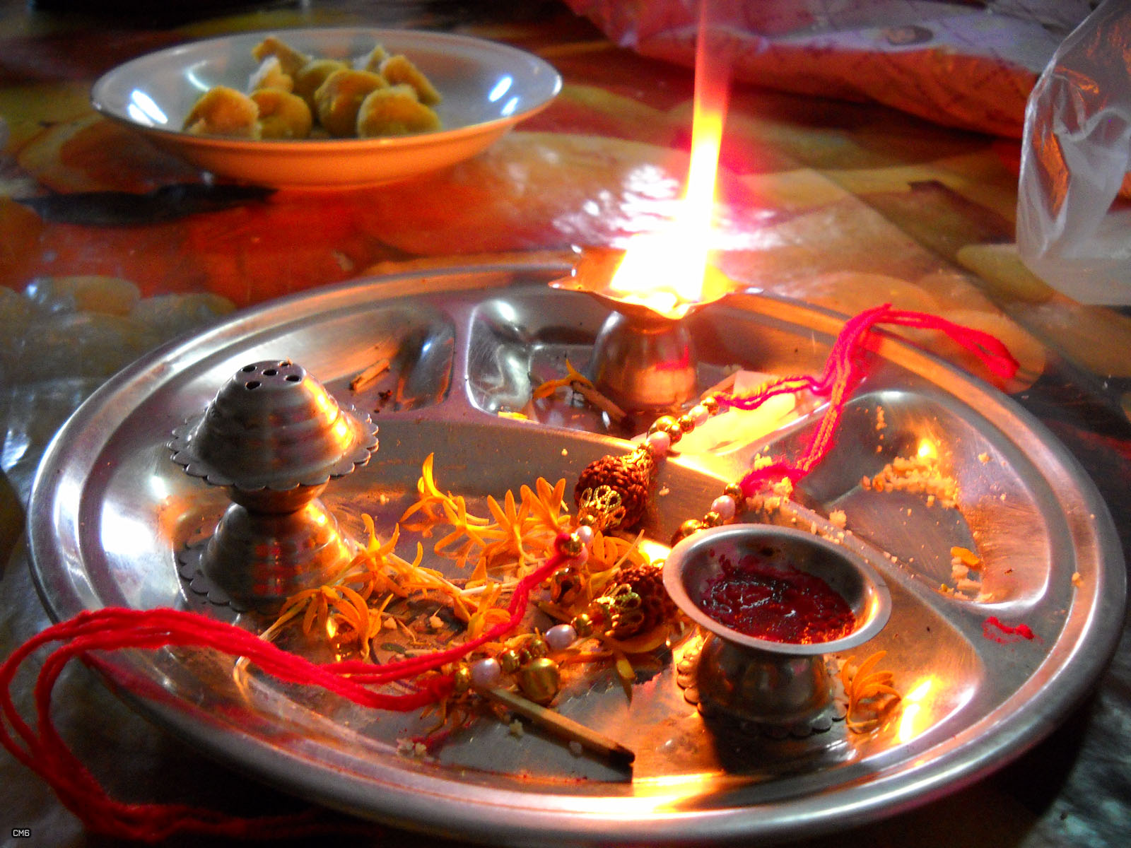 Raksha bandhan is an Indian festival that celebrates the love between sister and brother. It is also celebrated between any female and any male, regardless of age, to mark their sacred sister-brother like protective and respectful relationship. On that day, the woman does an aarti - a ritual signifying respect and love, then ties a thread on his wrist, followed by feeding each other with sweets. Raksha bandhan is a historic festival, prevalent among Hindus, Jains and Sikhs. Rakhi is a thread that a woman ties to a man (sister to a brother). They come in many colors, but safron, red and orange are most common. Sometimes above the thread are colorful decorative pieces. The aarti plate includes the rakhi to be tied, a lamp signifying victory of light over darkness and good over evil, incense sticks, a paste to mark the forehead and sweets to feed. More sweets (desserts) can be seen in the background.